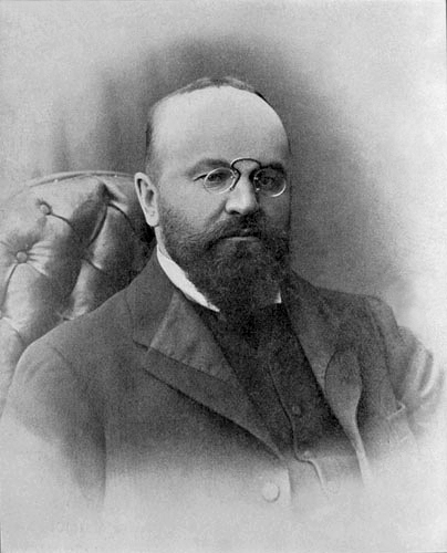 Dmitry Sirotkin (1865—1946) — a major shipbuilder and ship-owner in Nizhny Novgorod, one of the leaders of the Old Believers in Russia.